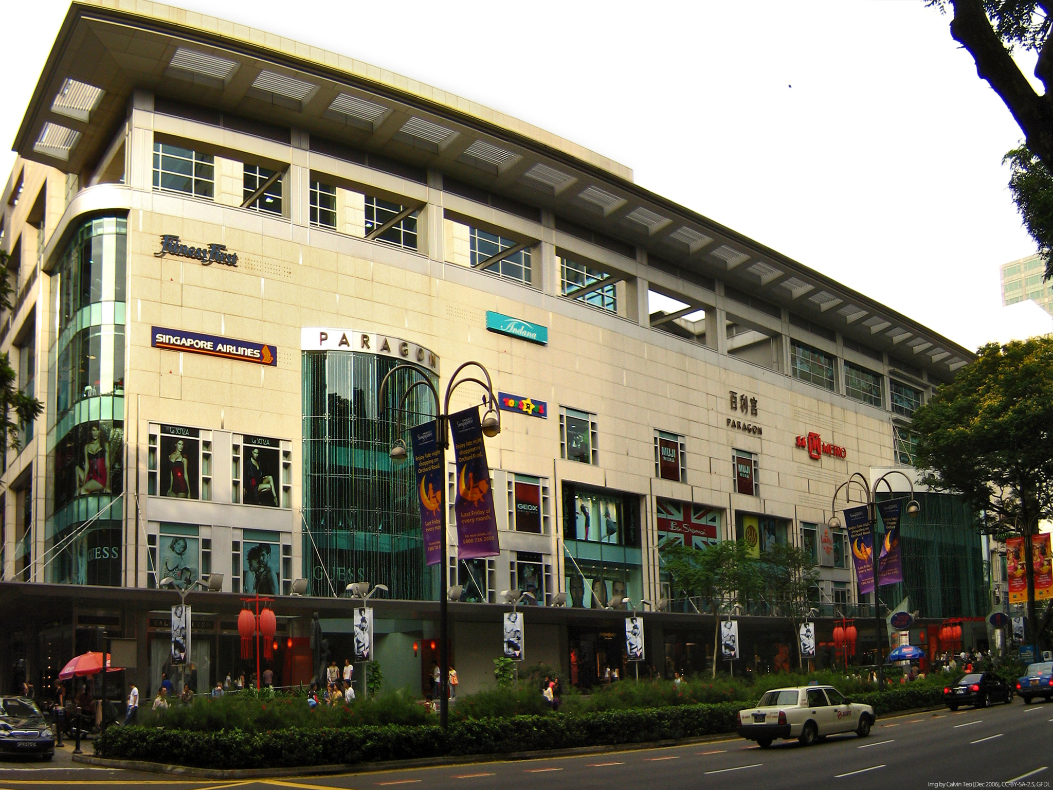 The Paragon, a high-end shopping mall, along Orchard Road, Singapore. (3mp version)